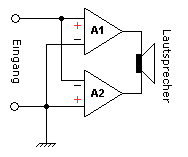 Shematic of a bridge-tied load amplifier (BTL, full brigde, H-bridge amplifier) with single-ended input (unbalanced signal input) for symmetrical power supply